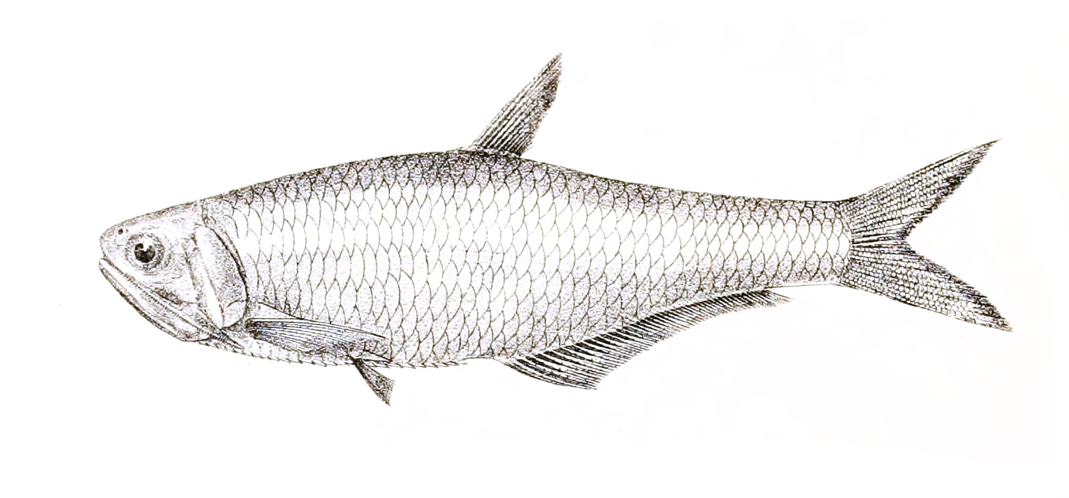 Thryssa purava syn. Engraulis puravaThe species names / identity need verification - original names from plate are included here. The original plates showed the fishes facing right and have been flipped here. Engraulis purava